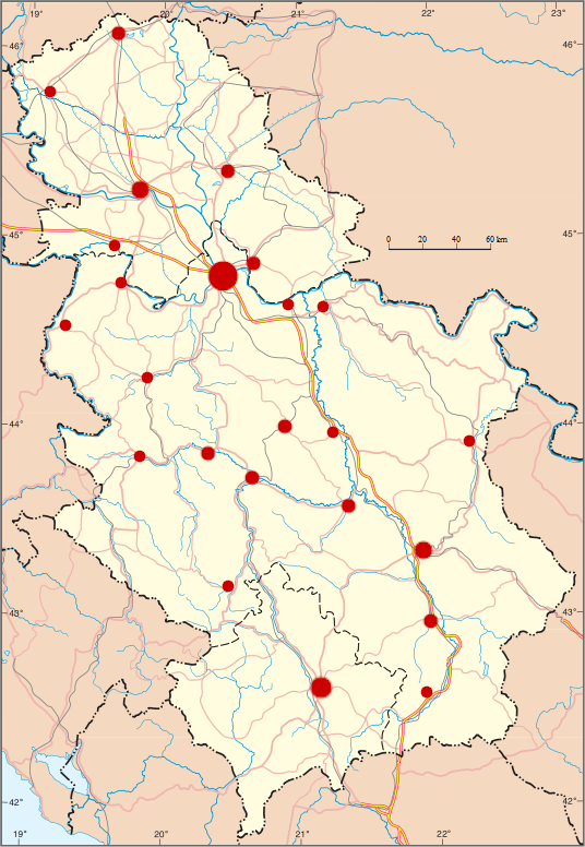 Geographic positions of Serbian cities